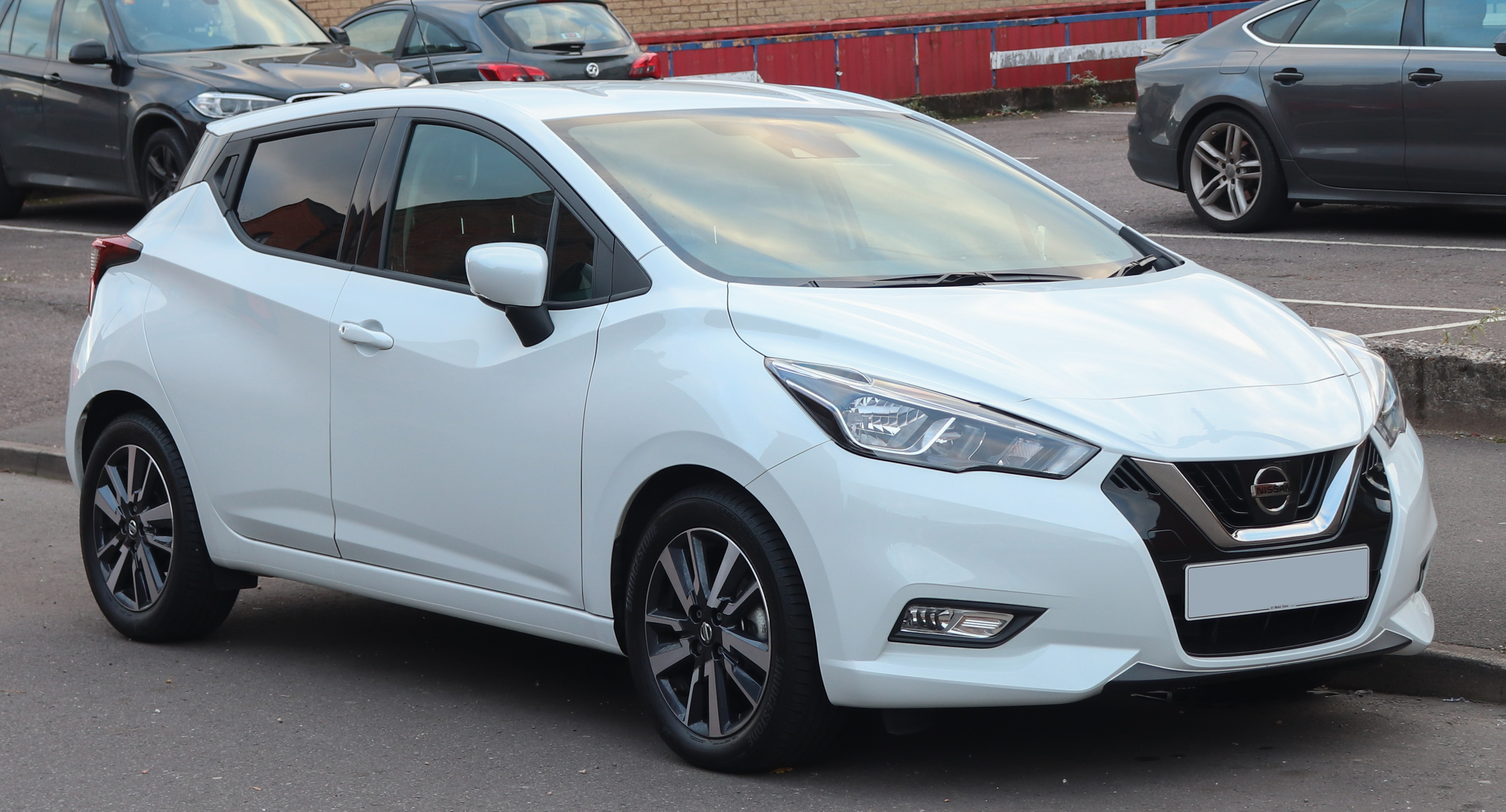 2017 Nissan Micra N-Connecta IG-T 900cc Front Taken in Leamington Spa